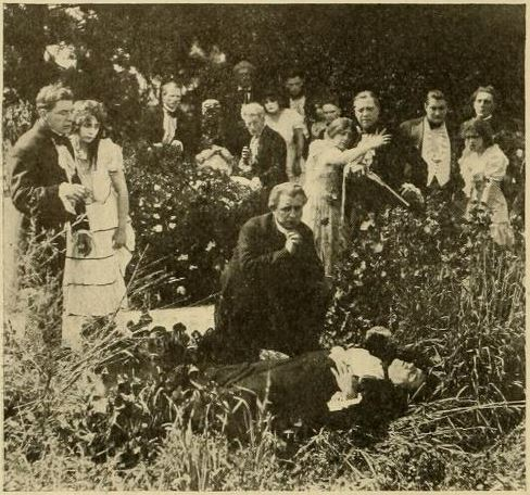 In a scene from the lost film St. Elmo (1914), the titular character (played by William Jossey) has killed his cousin Murray (Francis McDonald) as others look on.